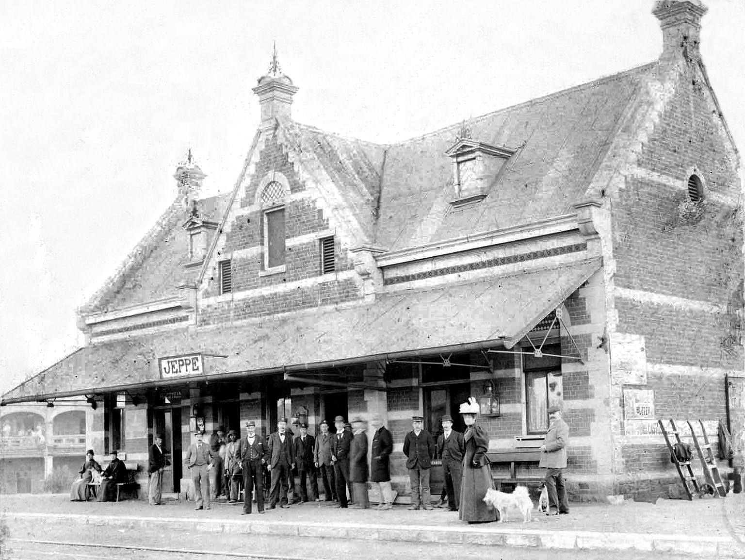 Jeppe station